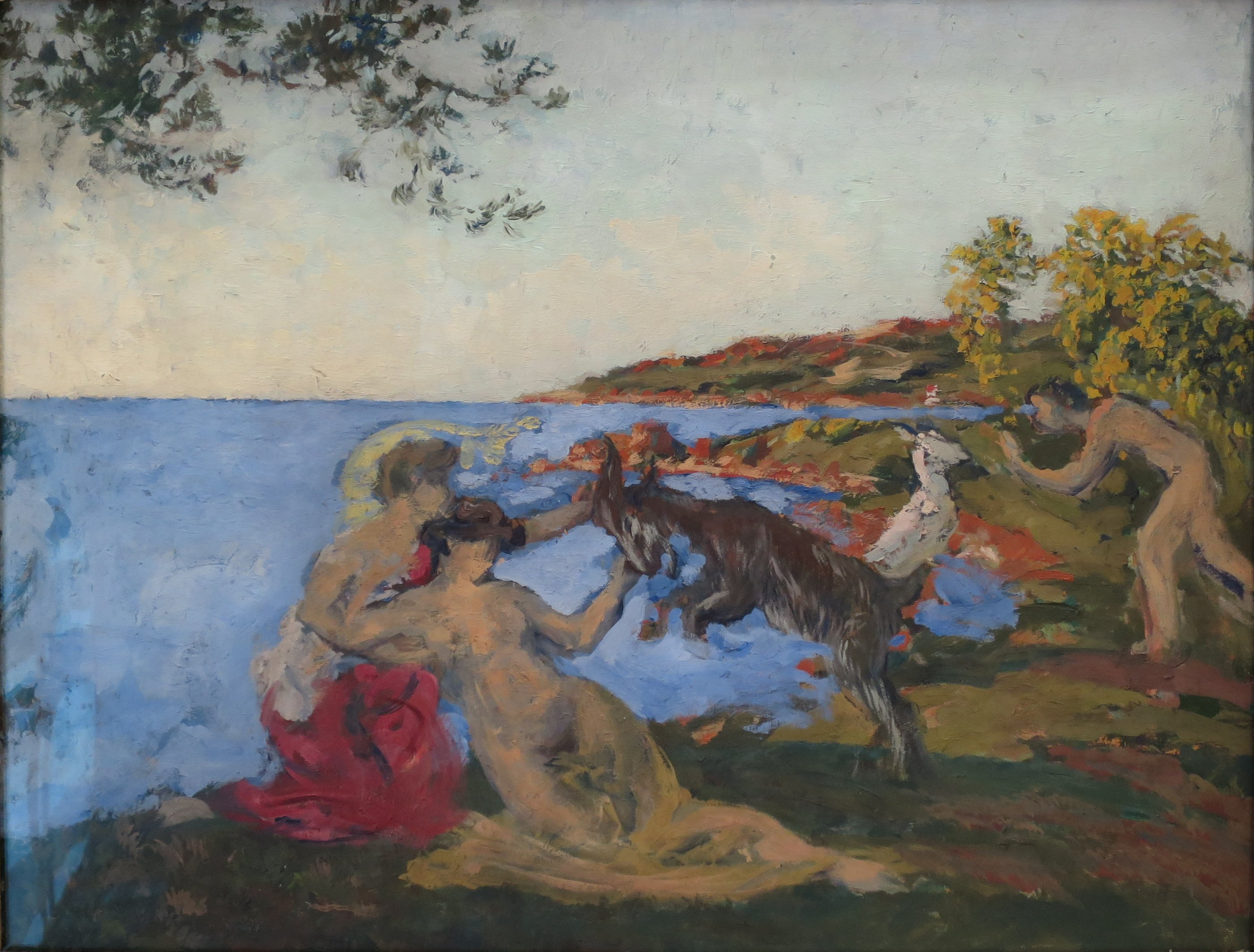 Mythological Subject by Ker-Xavier Roussel, c. 1903, Hermitage.JPG